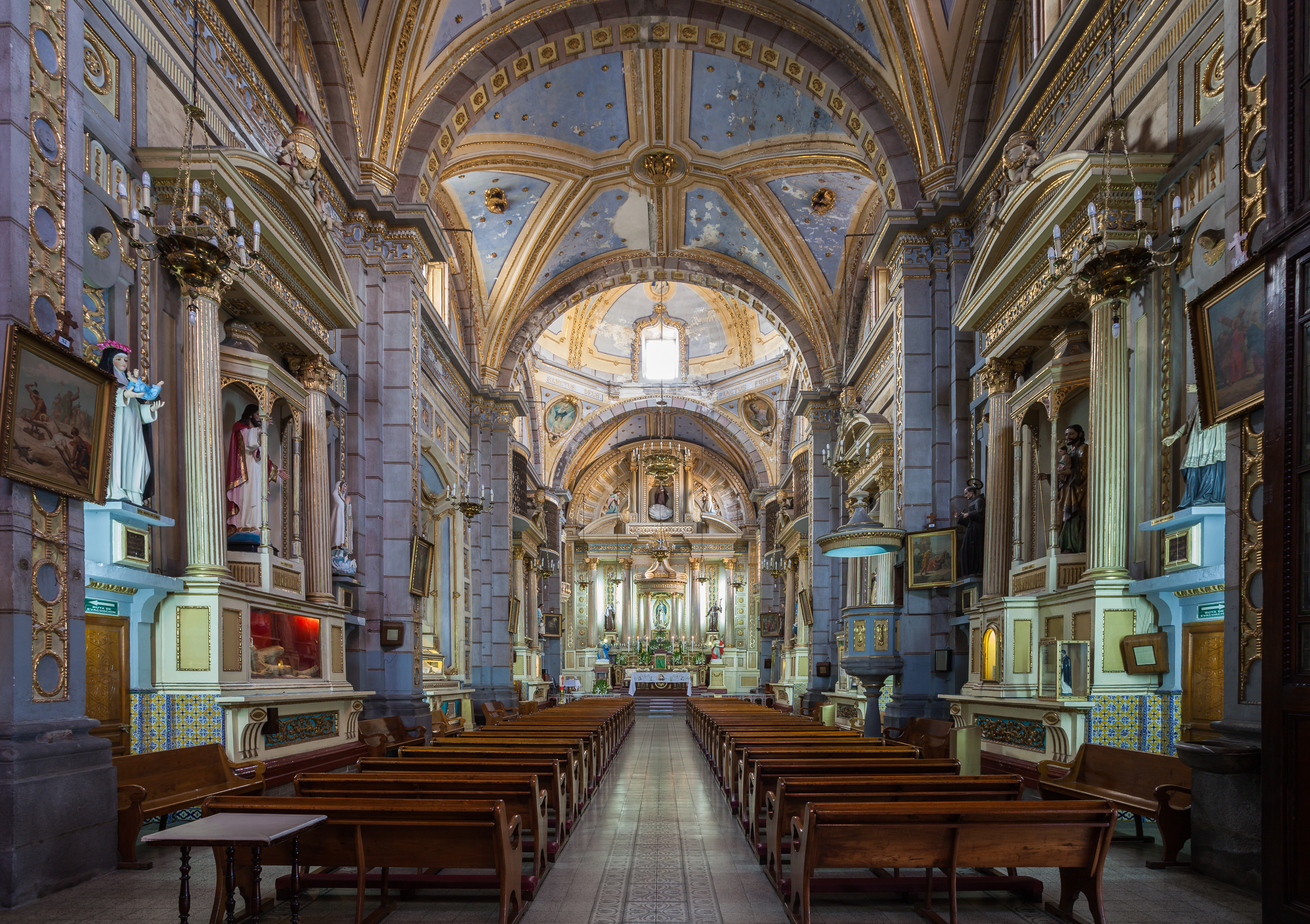 Parish of St Clara of Assisi, Puebla, Mexico